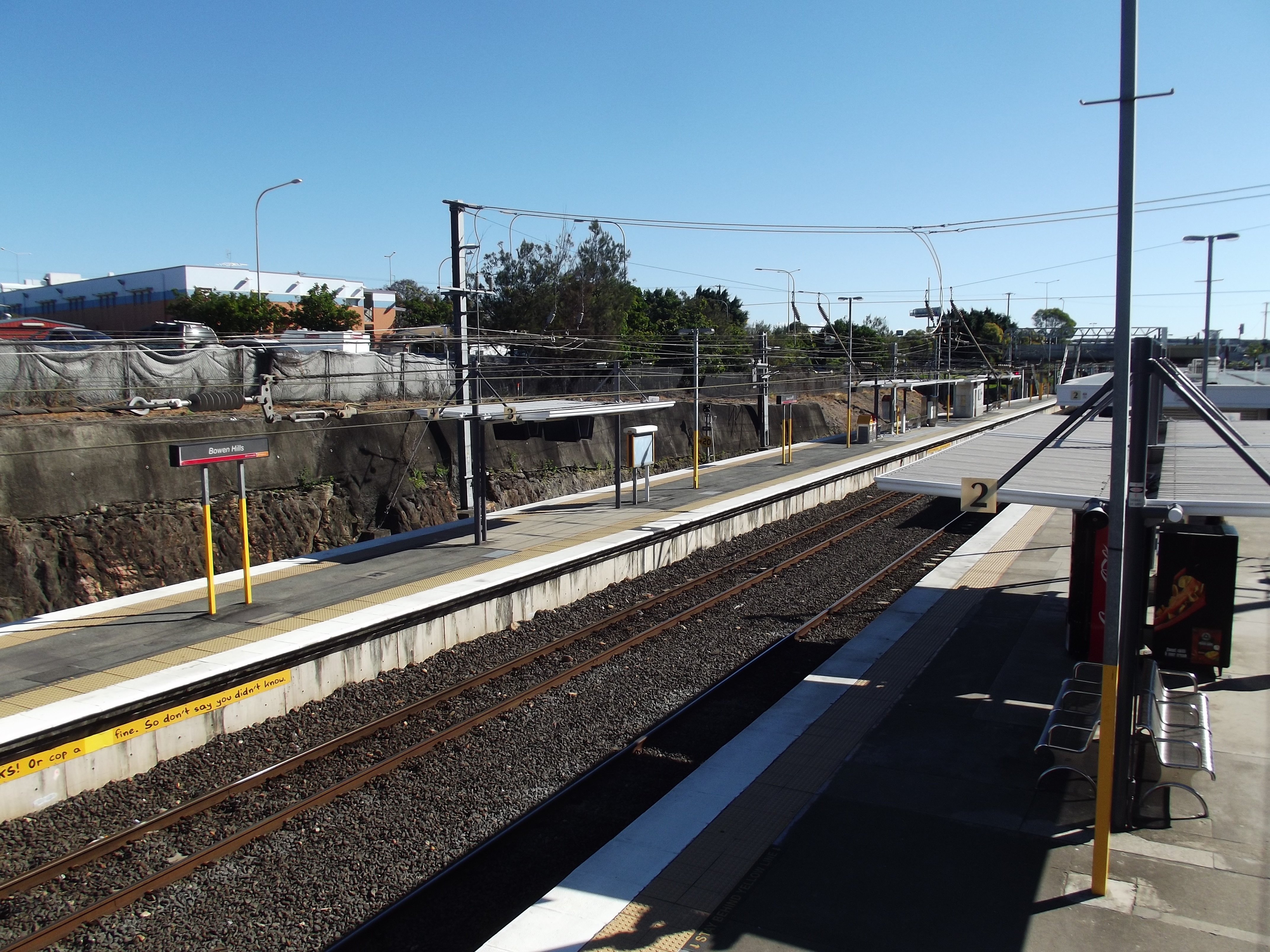 A photo of the Bowen Hills railway station, operated by TransLink, located in Brisbane, Queensland.